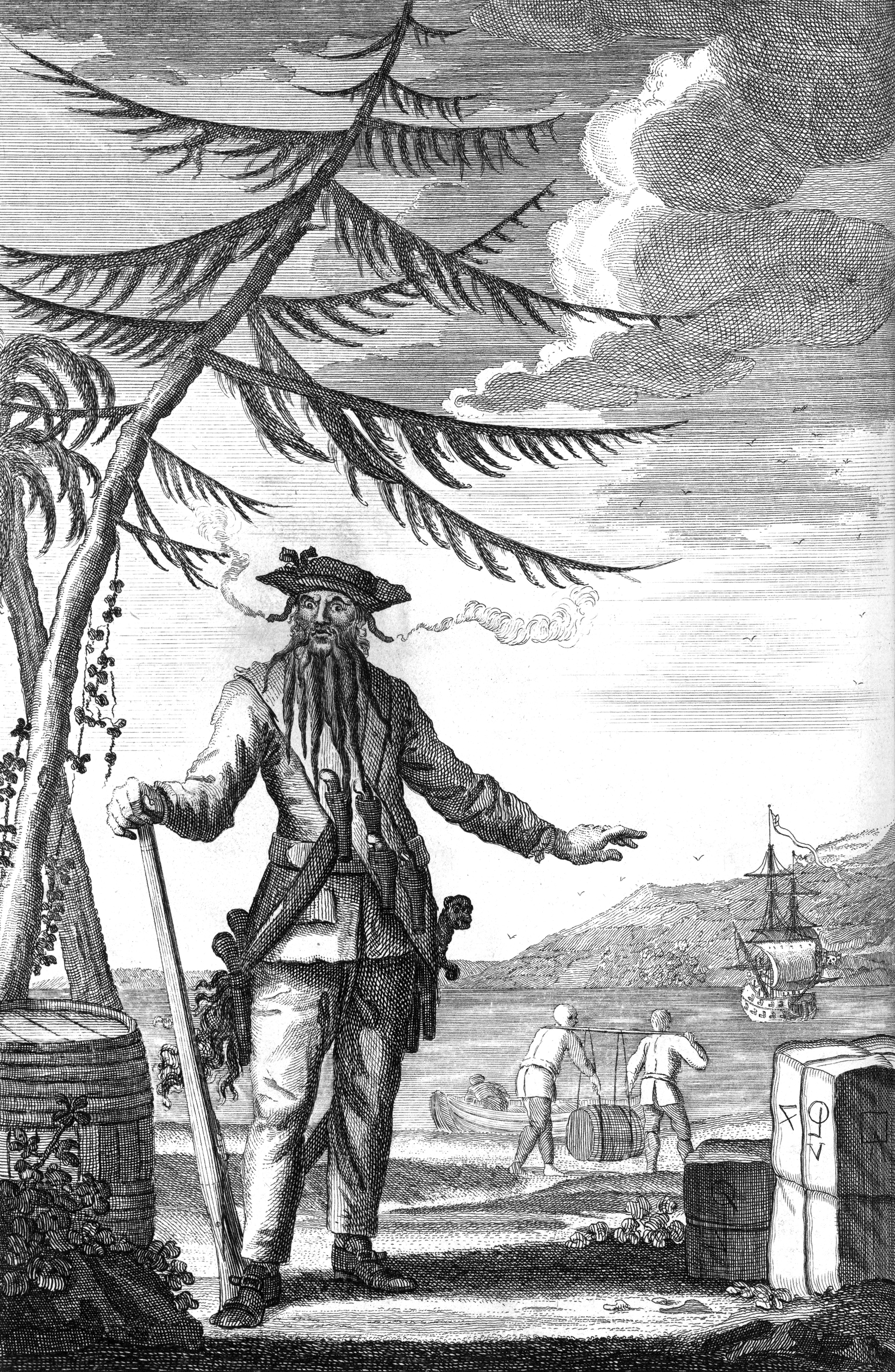 Blackbeard the Pirate: this was published in Defoe, Daniel; Johnson, Charles (1736 - although Angus Konstam says the image is circa 1726) "Capt. Teach alias Black-Beard" in A General History of the Lives and Adventures of the Most Famous Highwaymen, Murderers, Street-Robbers, &c. to which is added, a genuine account of the voyages and plunders of the most notorious pyrates. Interspersed with several diverting tales, and pleasant songs. And adorned with the Heads of the most remarkable Villains, curiously engraven on Copper, London: Oliver Payne, pp. plate facing p. 86